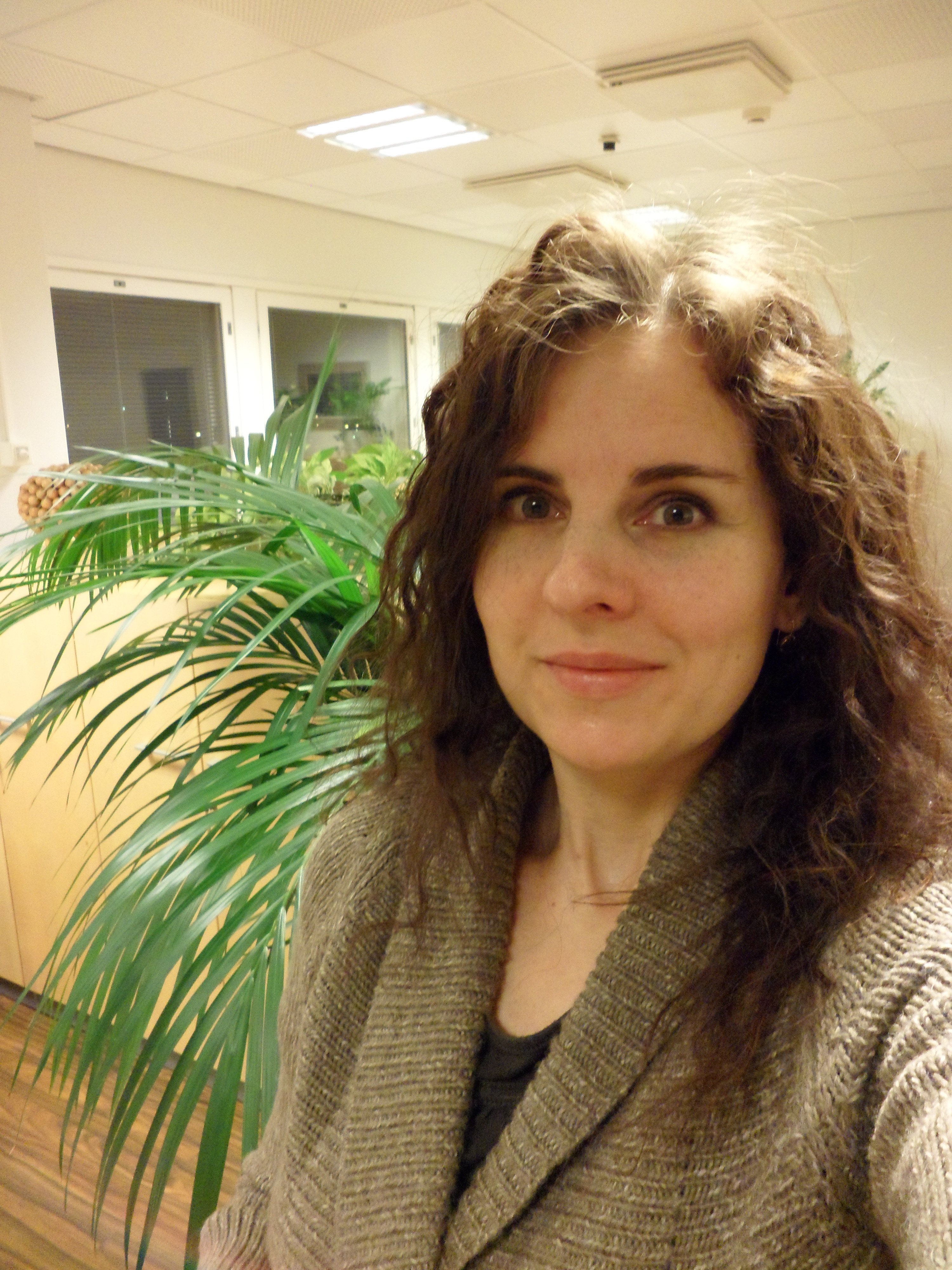 Kristiina Kass